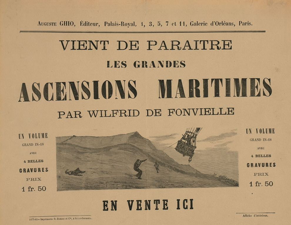 Advertisement for a book on balloon ascensions written by French balloonist Wilfrid de Fonvielle (1824-1914) and published by Auguste Ghio, Paris, 1882.